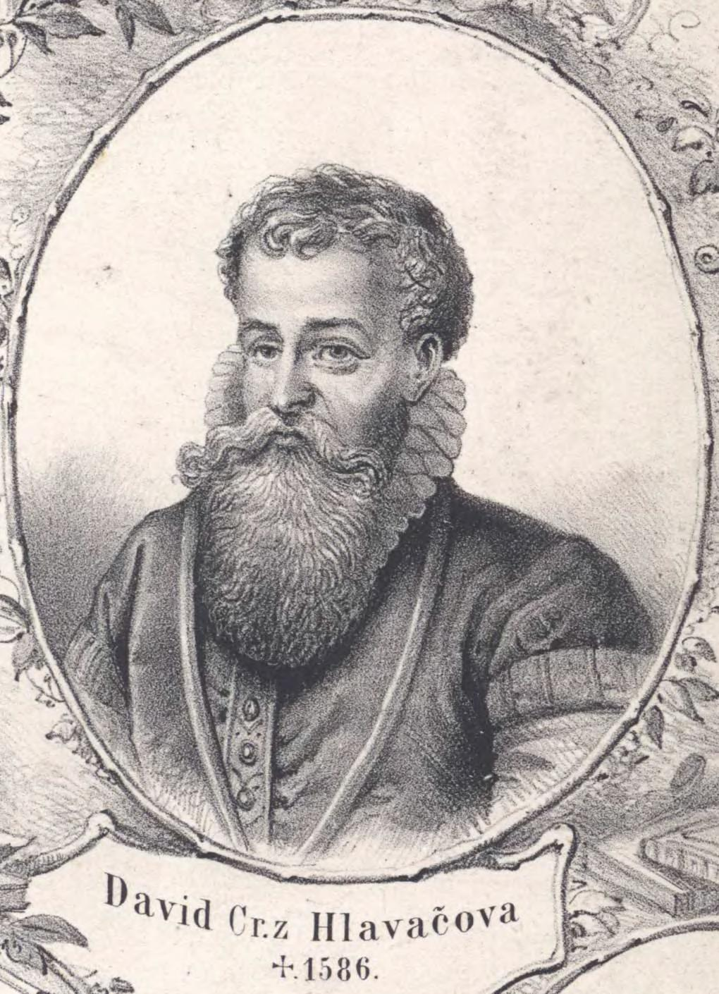 Portrait of David Crinitus z Hlavačova (1531 - 1586), Czech poet and writer.